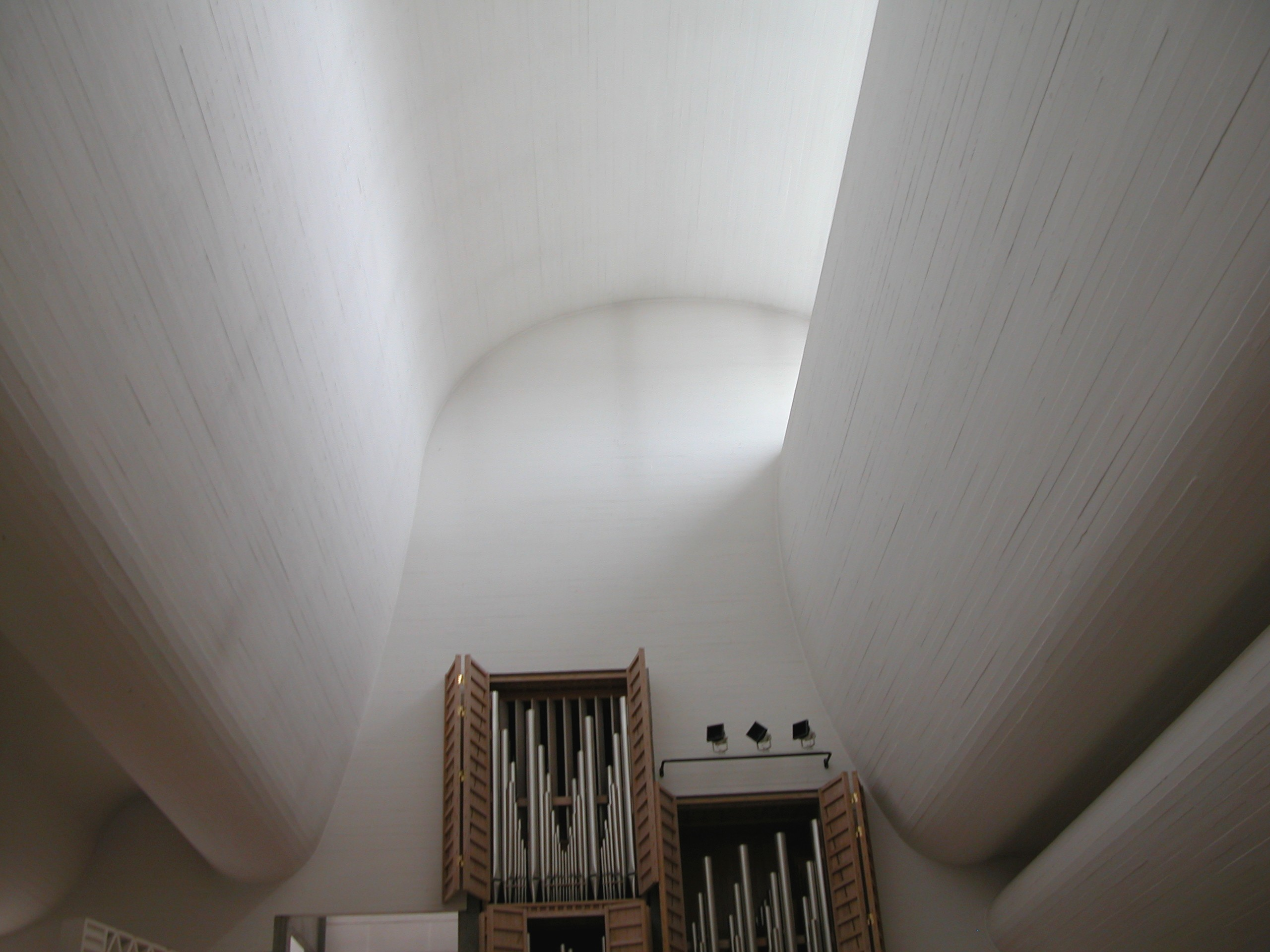 Church of Bagsværd, Denmark